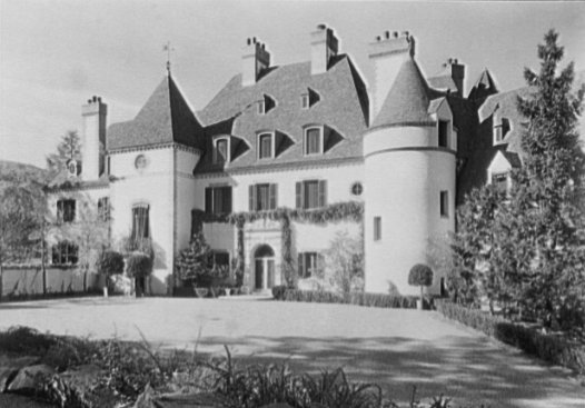 TITLE:Mrs. Pierre Lorillard, residence in Tuxedo Park, New York. Main entrance view.